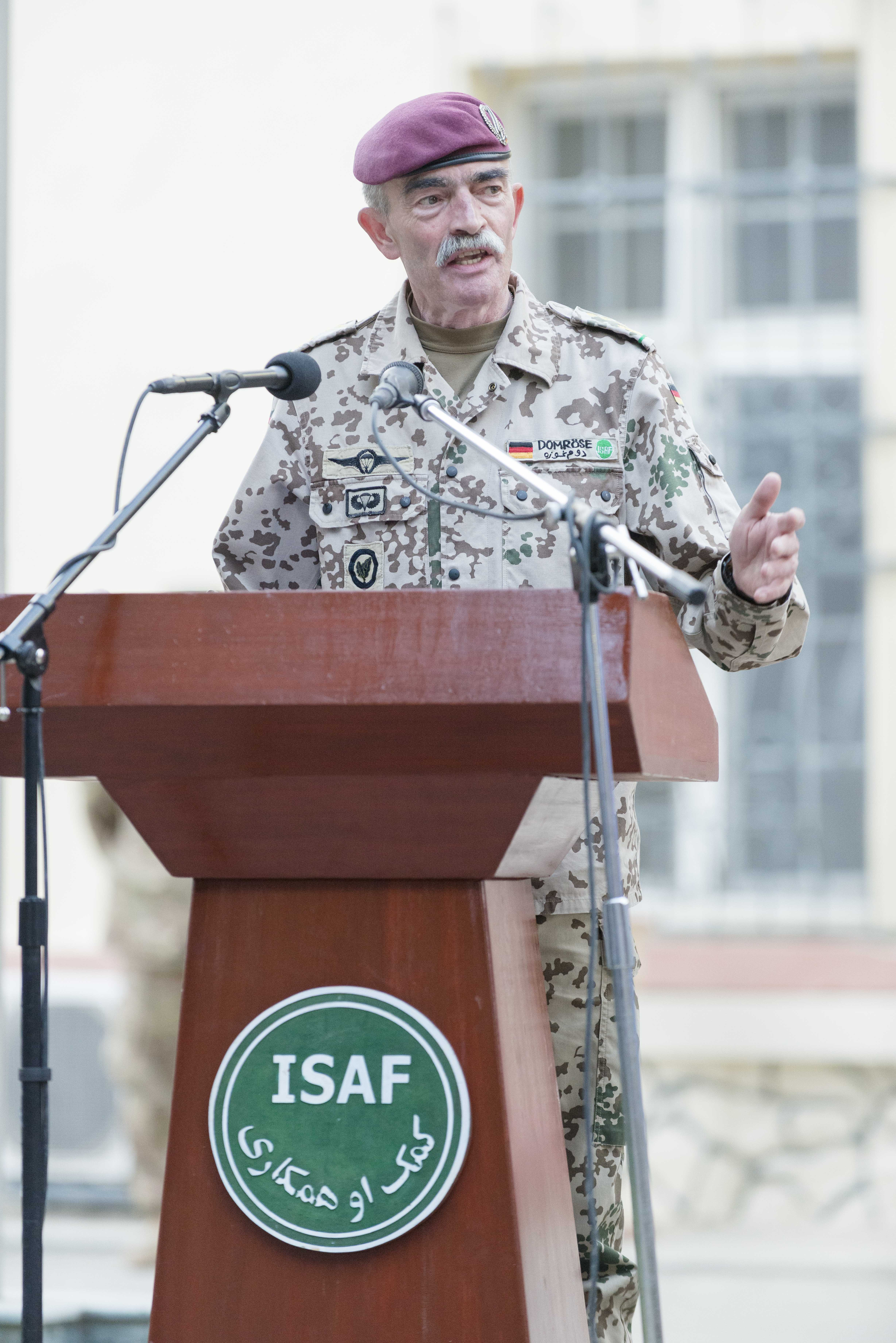 German army Gen. Hans-Lothar Domröse, the commander of Allied Joint Force Command Brunssum, delivers remarks during the International Security Assistance Force and U.S. Forces-Afghanistan change of command ceremony Aug. 26, 2014, in Kabul, Afghanistan. During the event, U.S. Marine Corps Gen. Joseph F. Dunford Jr. relinquished command to Army Gen. John F. Campbell.